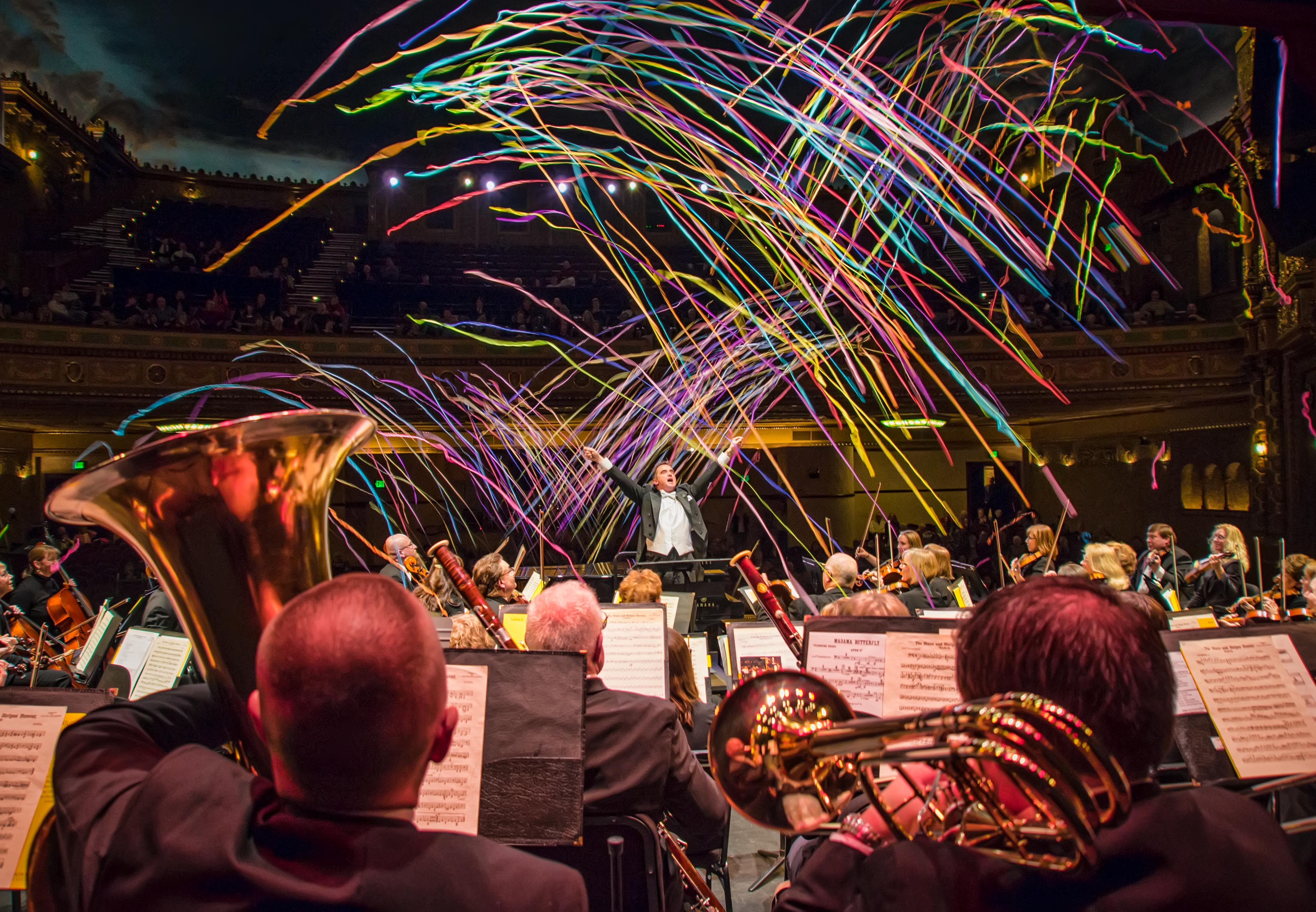 Mayor Schmitt won the "Battle of the Baton" and conducted the Civic Symphony in "Stars and Stripes Forever" on 4/14/2013 at the Meyer Theatre. During the climax of the performance, streamers shout out over the symphony.